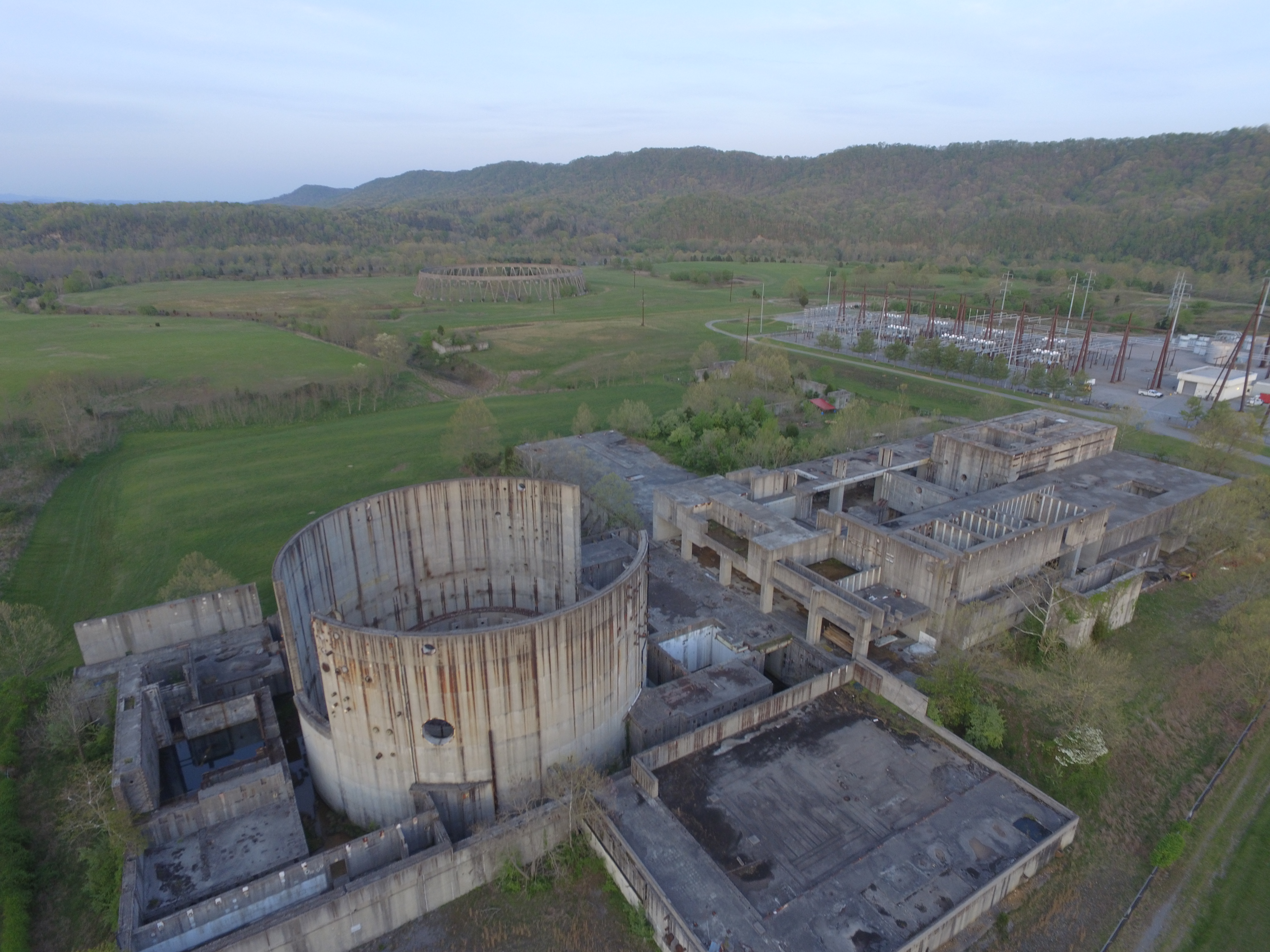 Nuclear Boiling Reactor Bays 1 and 2, Cooling Tower Foundation in far horizon, Switchboard and River on right... Spring 2016